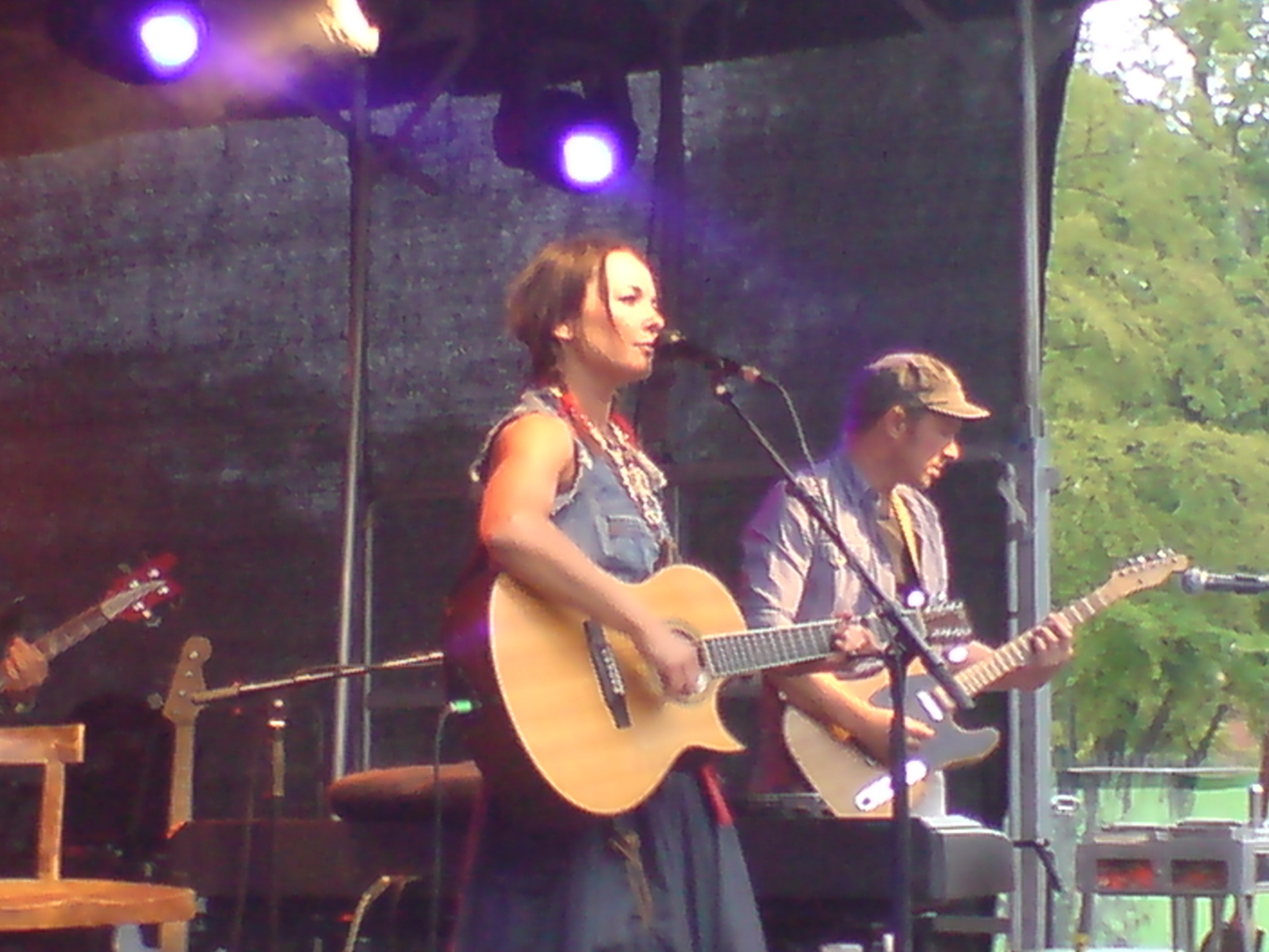 Sophie Zelmani performing in Trädgårdsföreningen in Gothenburg 10 July 2009.